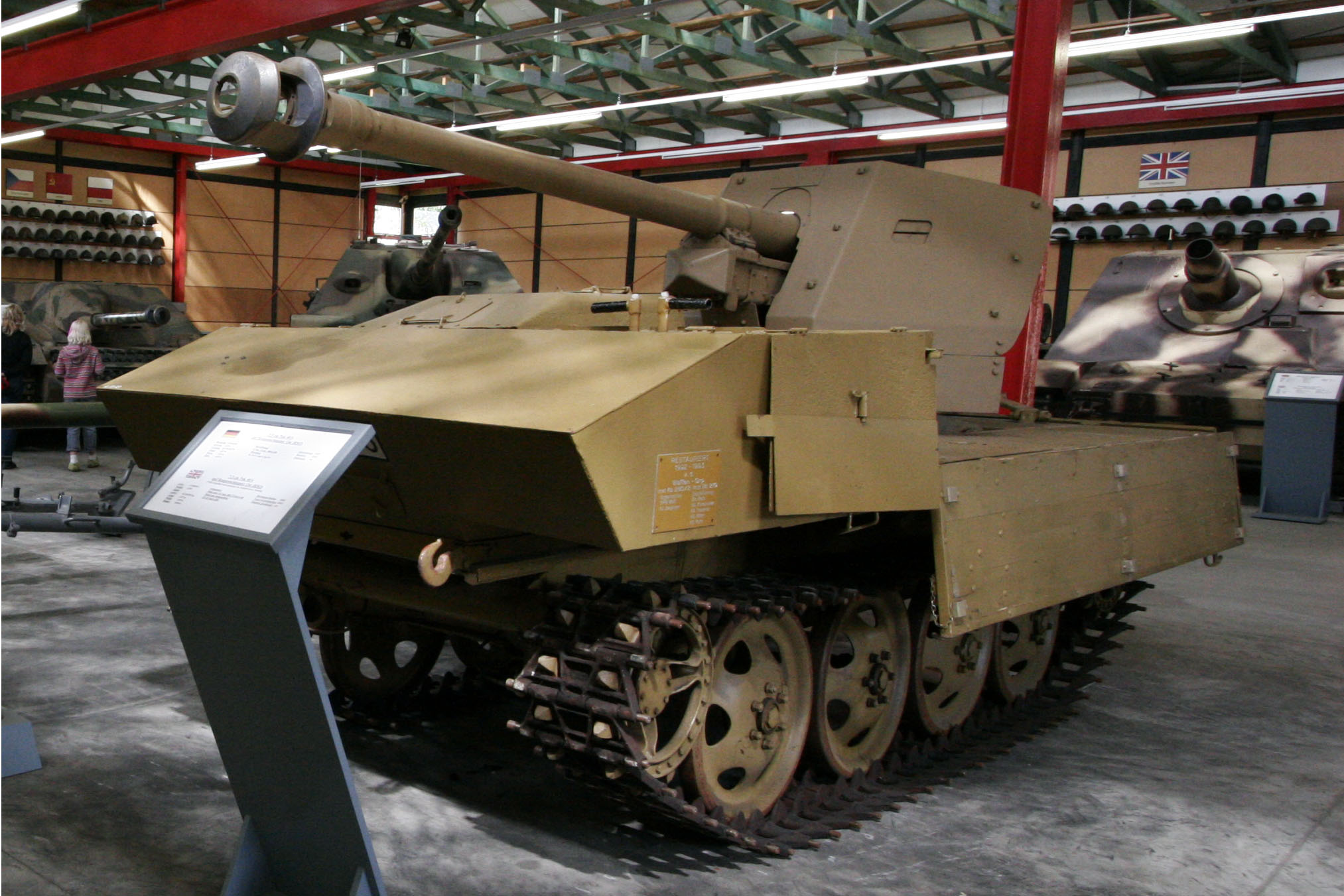 Steyr RSO w/Pak 40 on display at the Deutsches Panzermuseum Munster , Germany.